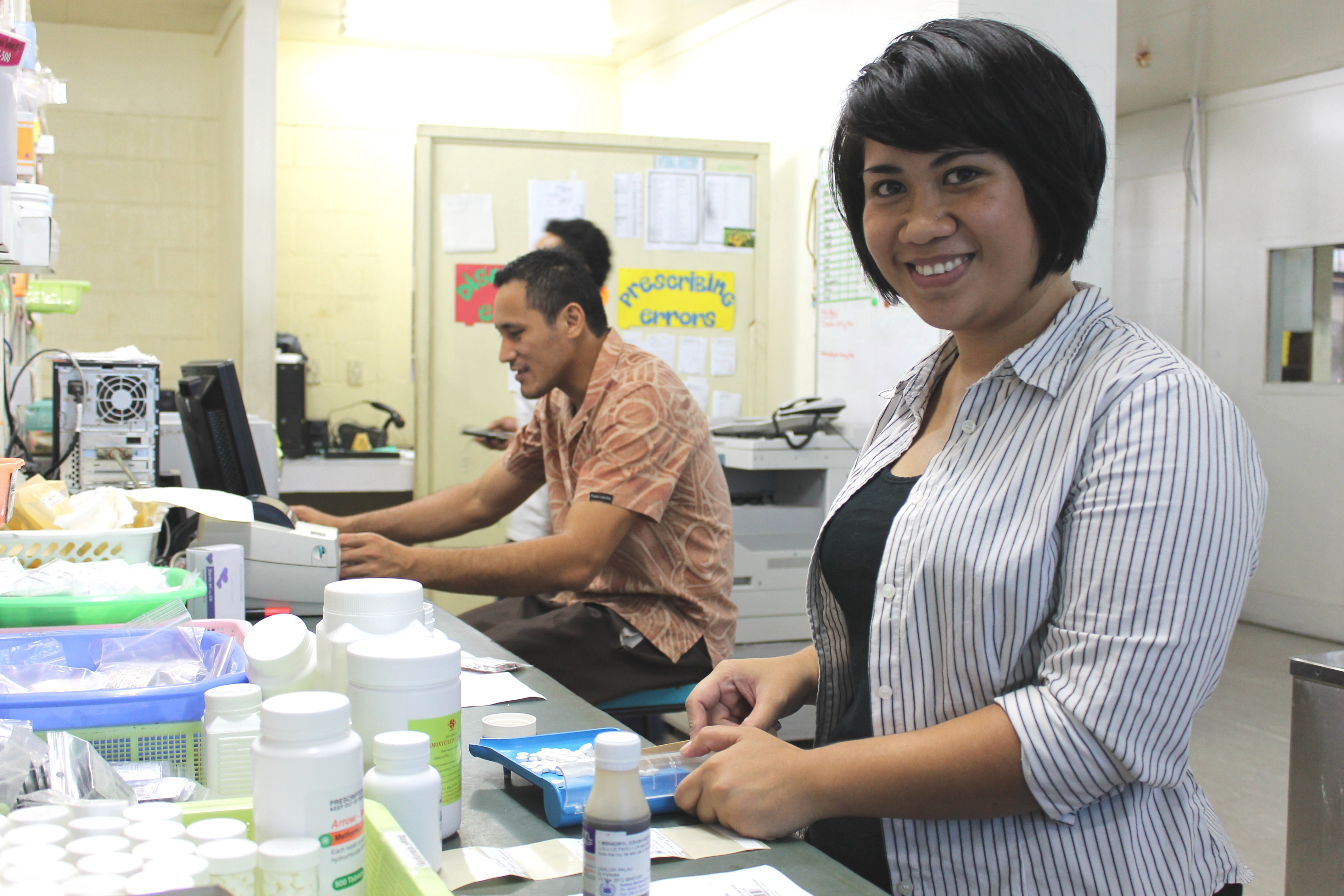 to request a high resolution original